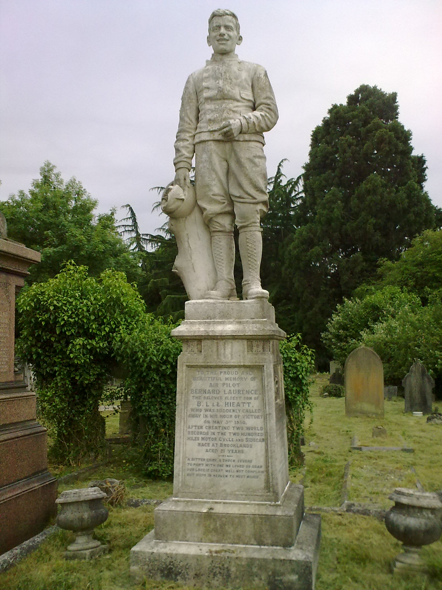 memorial of Bernard Laurence Hieatt located in Old Reading Cemetery